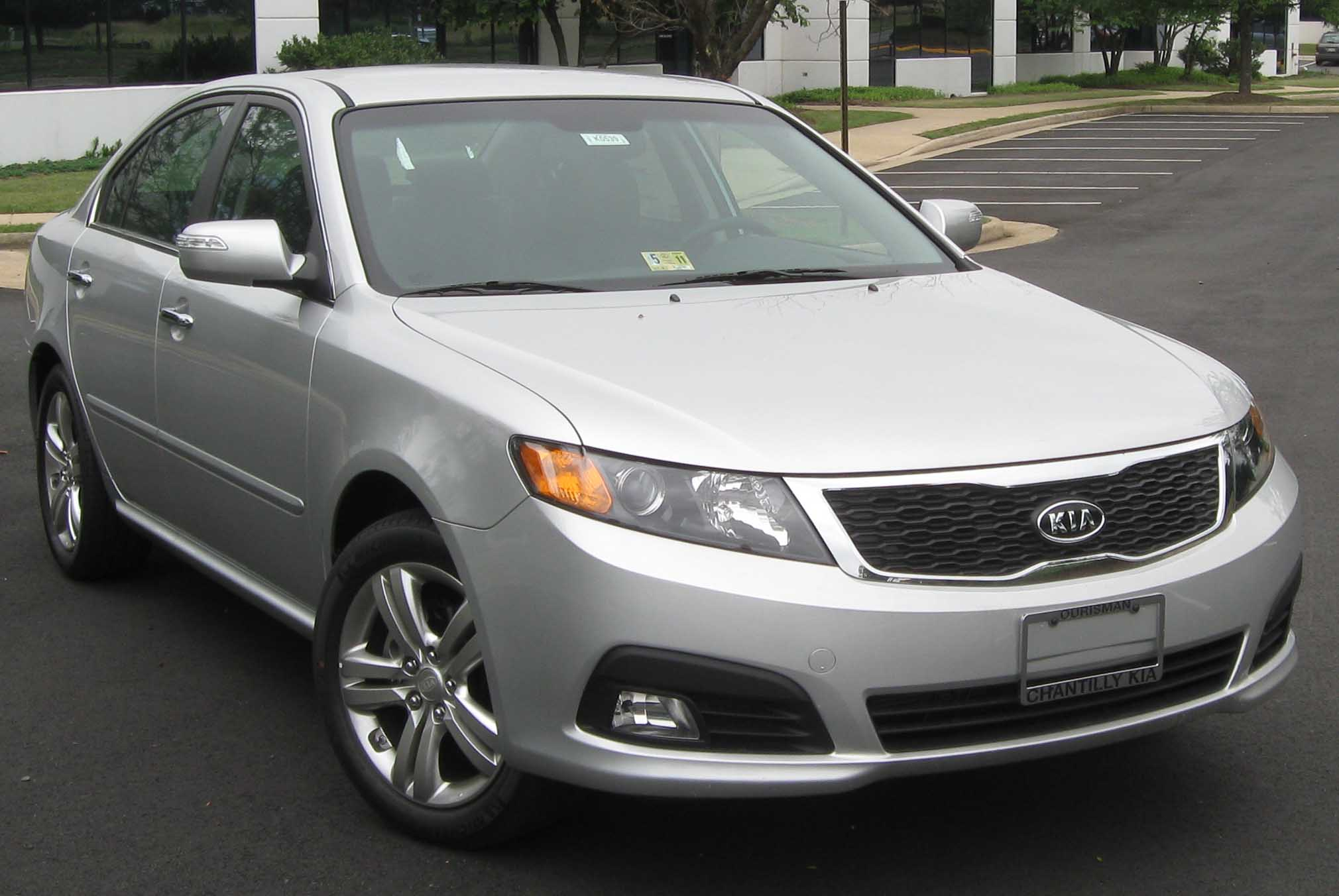 2010 Kia Optima photographed in Chantilly, Virginia, USA.